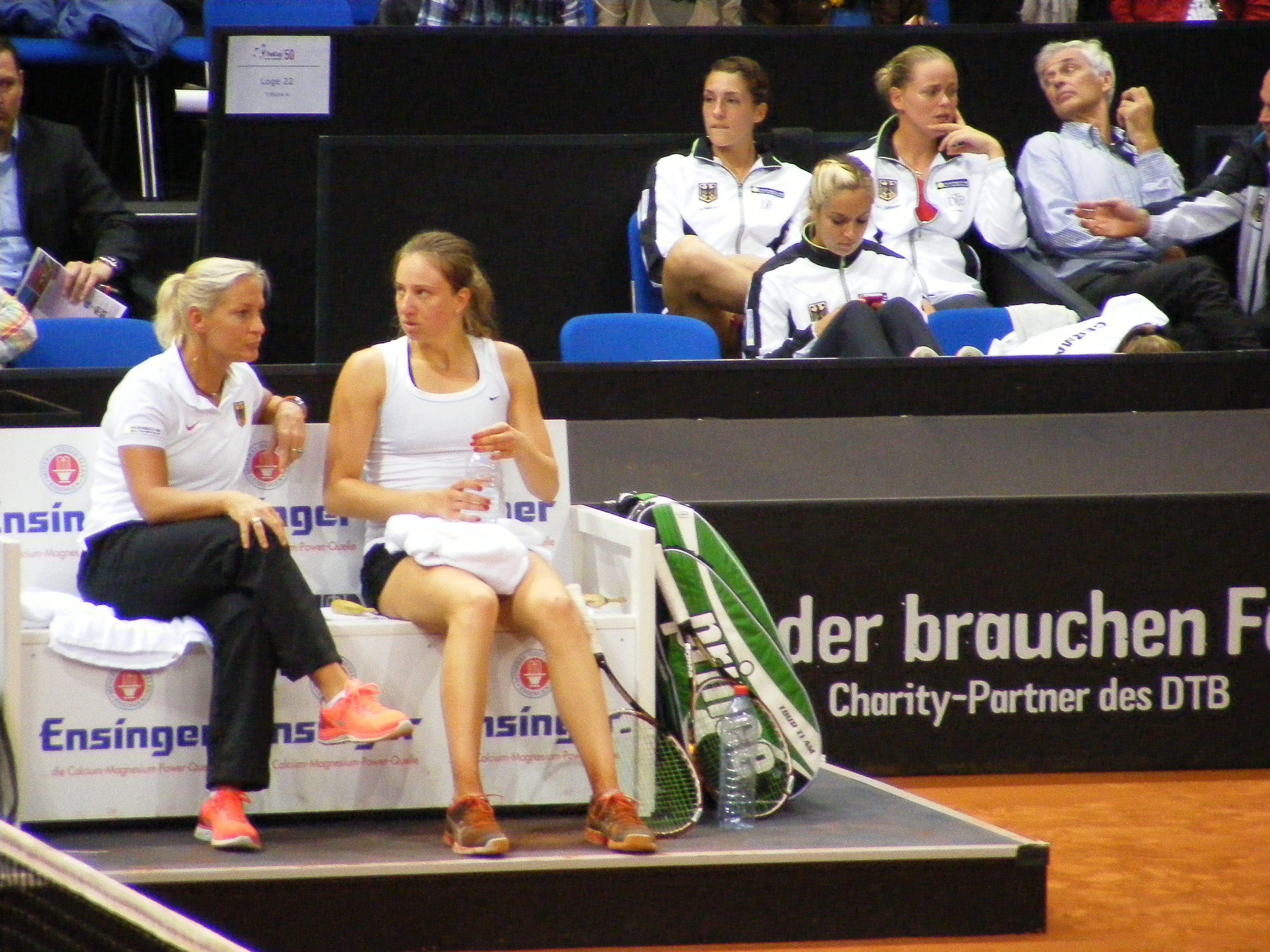 side change Mona Barthel vs Ana Ivanovic at Fed Cup 2013 Germany vs Serbia